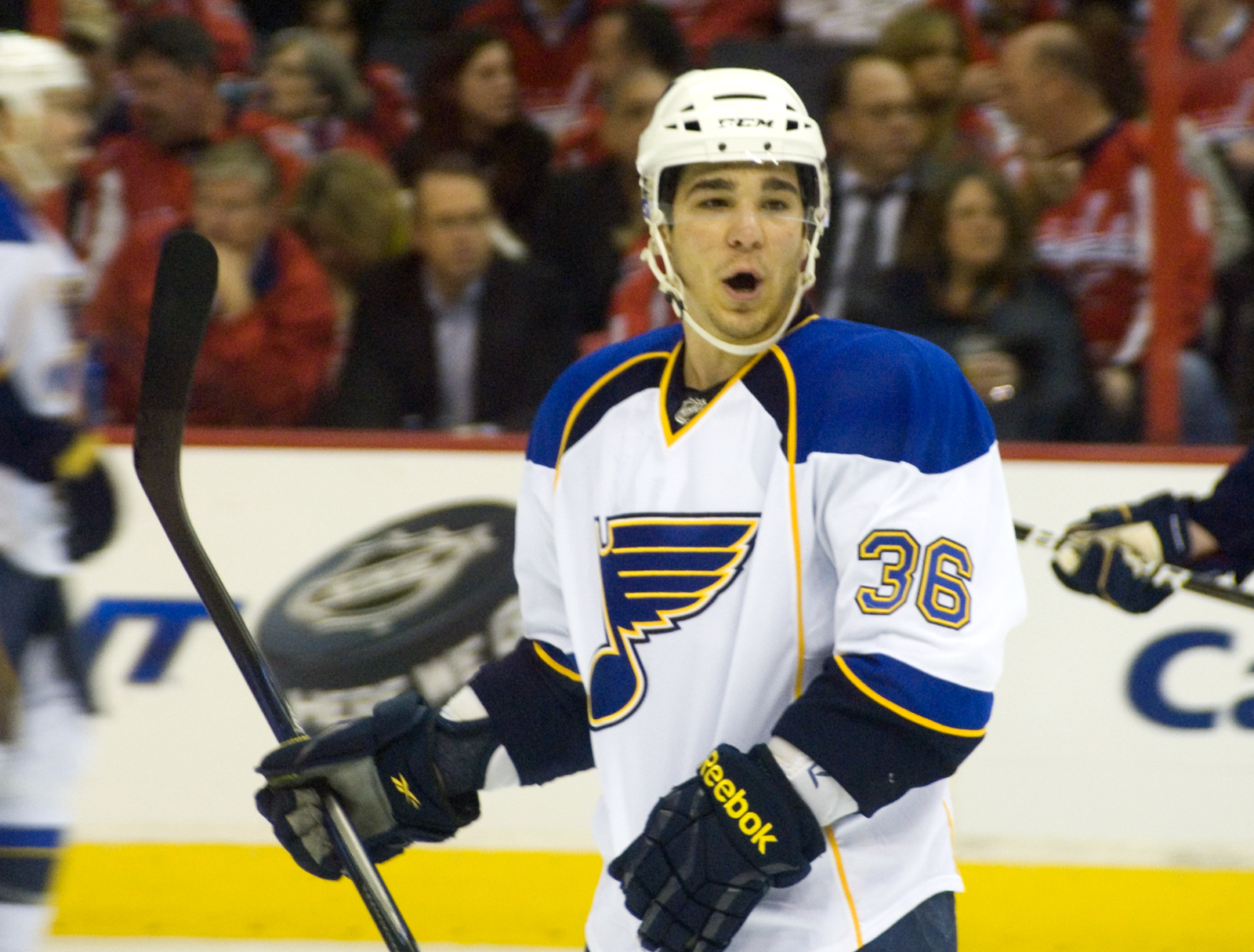 ERI_5190 Photo taken on March 3, 2011 by Sarah Connors. St. Louis Blues vs. Washington Capitals – National Hockey League (NHL) This photo also appears in sarah_connors' Flickr photostream Blues @ Caps, 3/3/11 (Set: 134) Flickr Tags: St. Louis Blues, Washington Capitals, Capitals, Caps, Blues, hockey, icehockey, NHL, Verizon Center